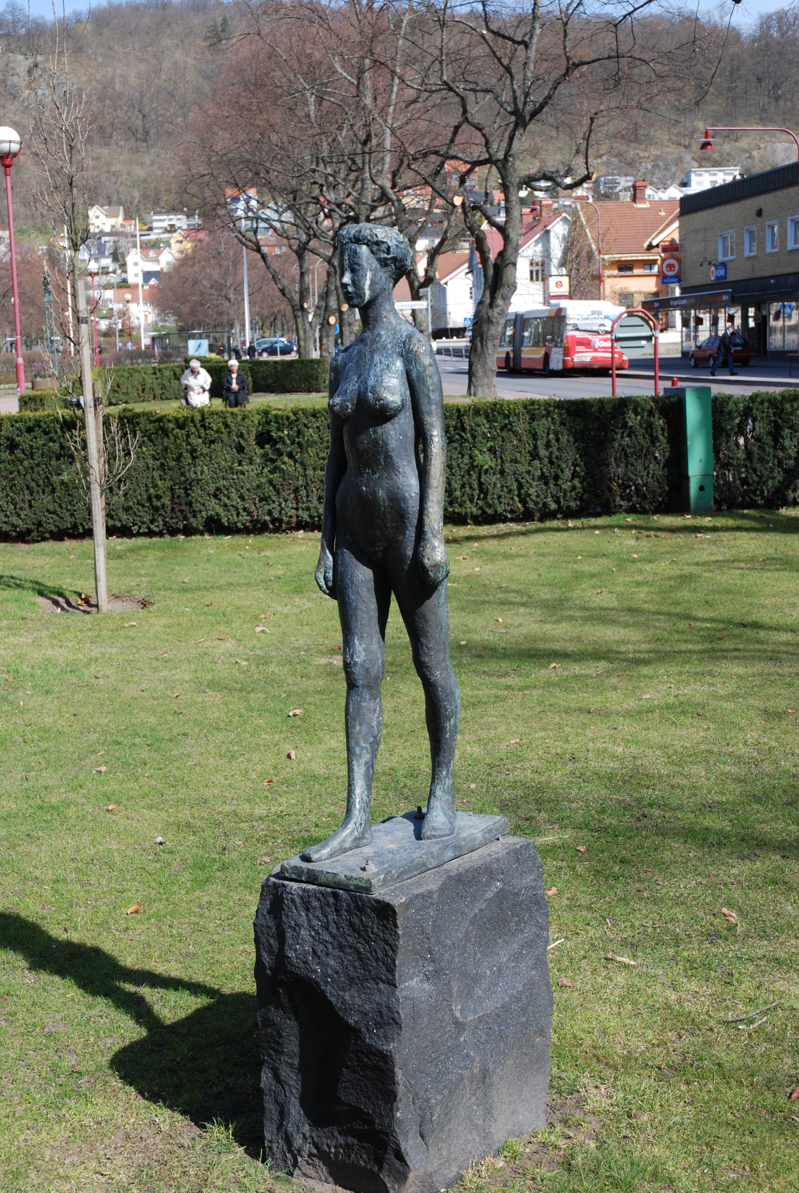 Curt Thorsjö`s Eva, Huskvarna, Sweden